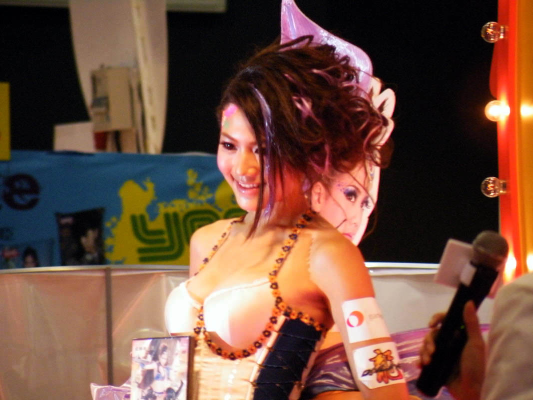 Chrissie Chau performance at Hong Kong ACG-HK 2010